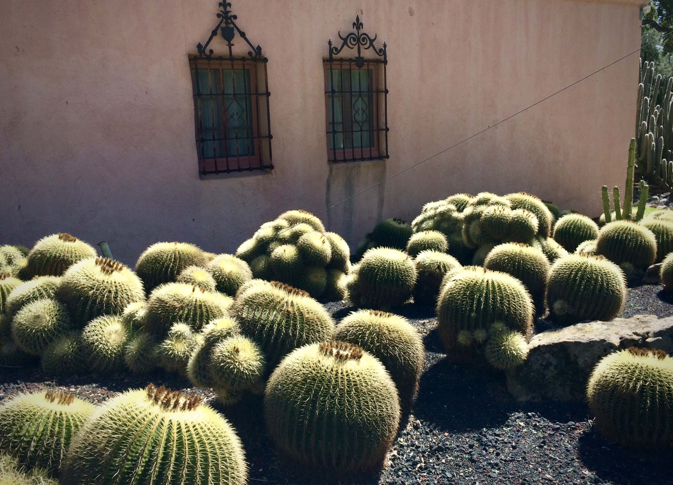 Mature Golden Barrels, planted at the front of the guest house, Lotusland